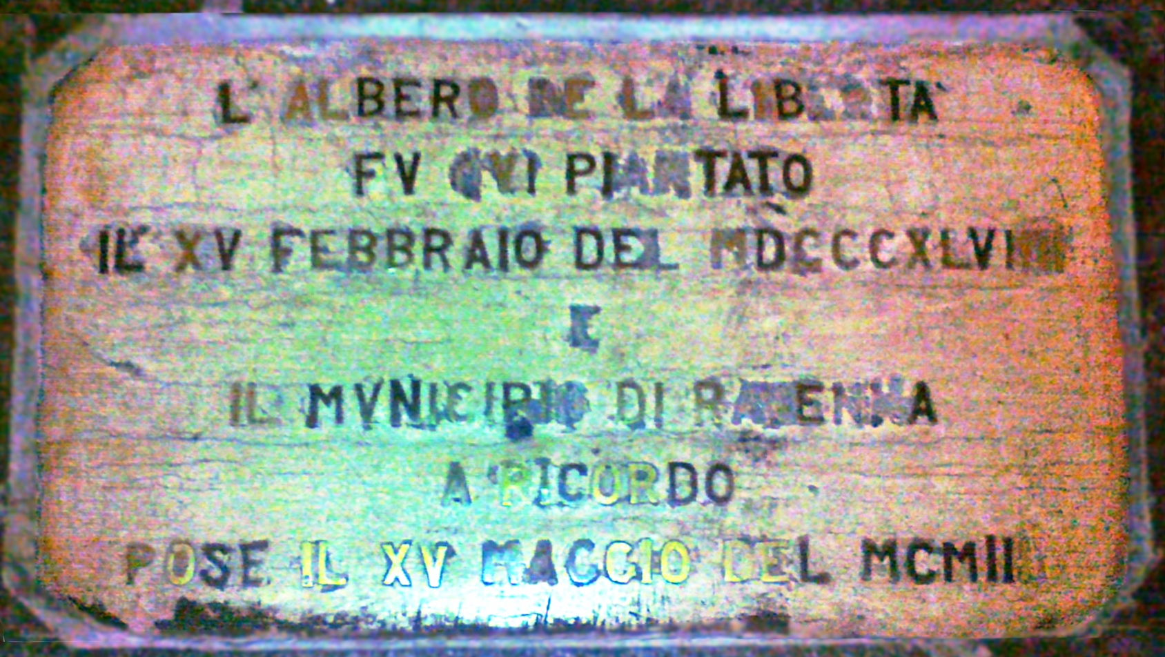 Plate remembering Liberty Pole in Ravenna (Piazza del popolo)